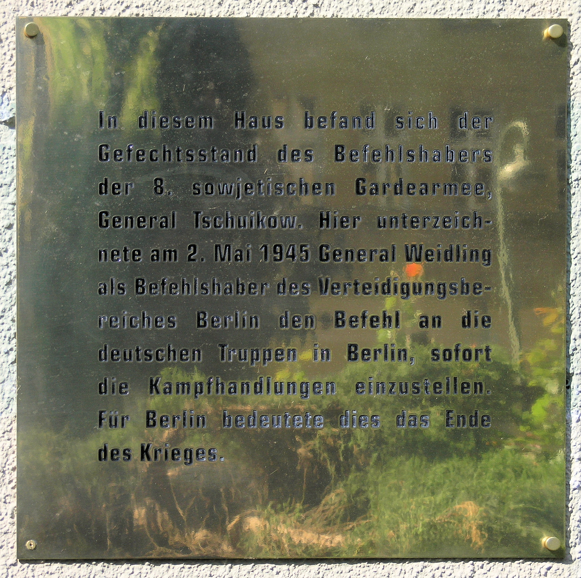 Memorial plaque, Berliner Kapitulation, Schulenburgring 2, Berlin-Tempelhof, Germany